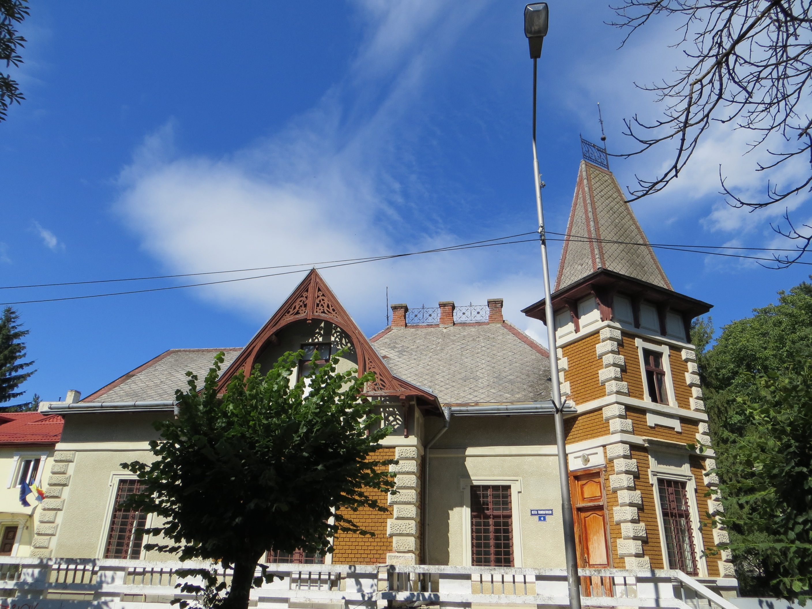 House in Suceava (Trandafirilor Street, 4).